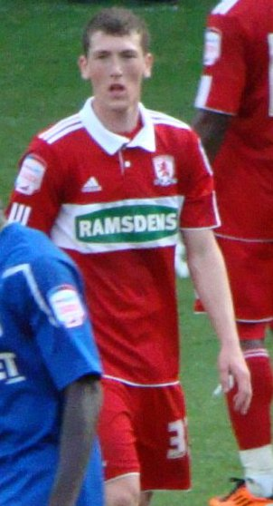 Richard Smallwood, cropped from 02/05/11 Cardiff V Middlesbrough, Championship, Cardiff City Stadium, Cardiff, Wales